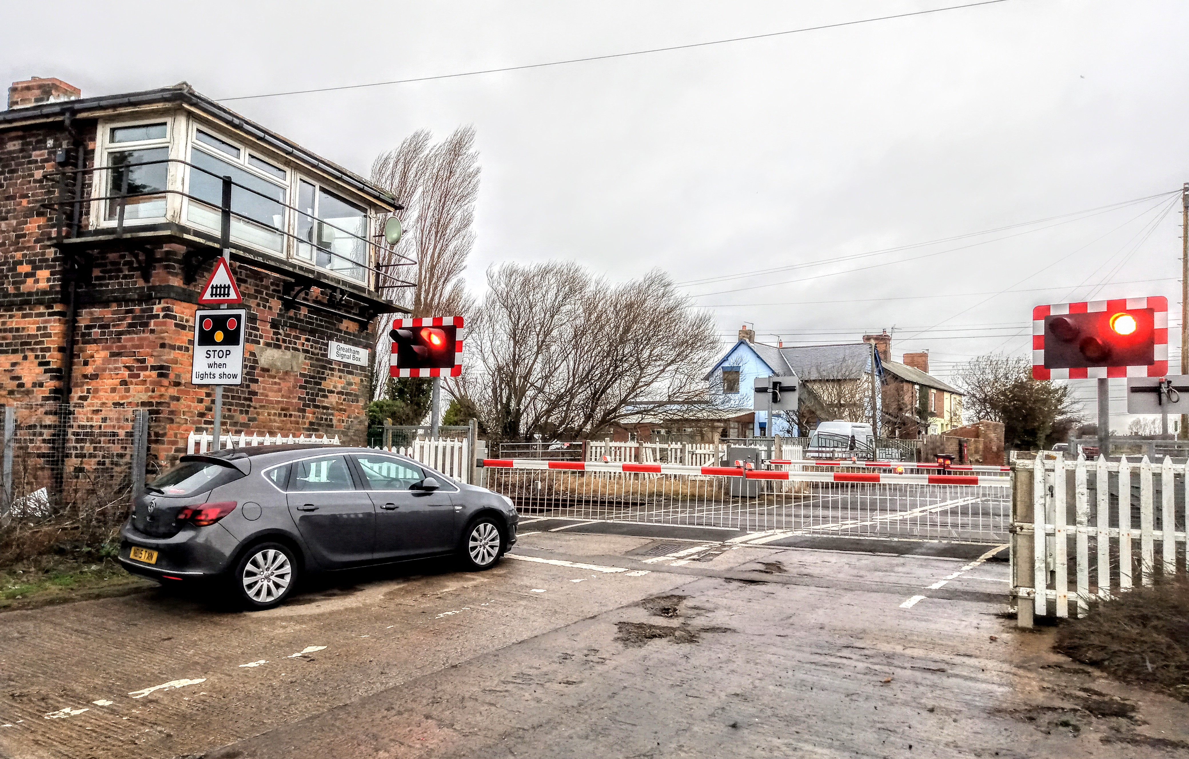 Greatham